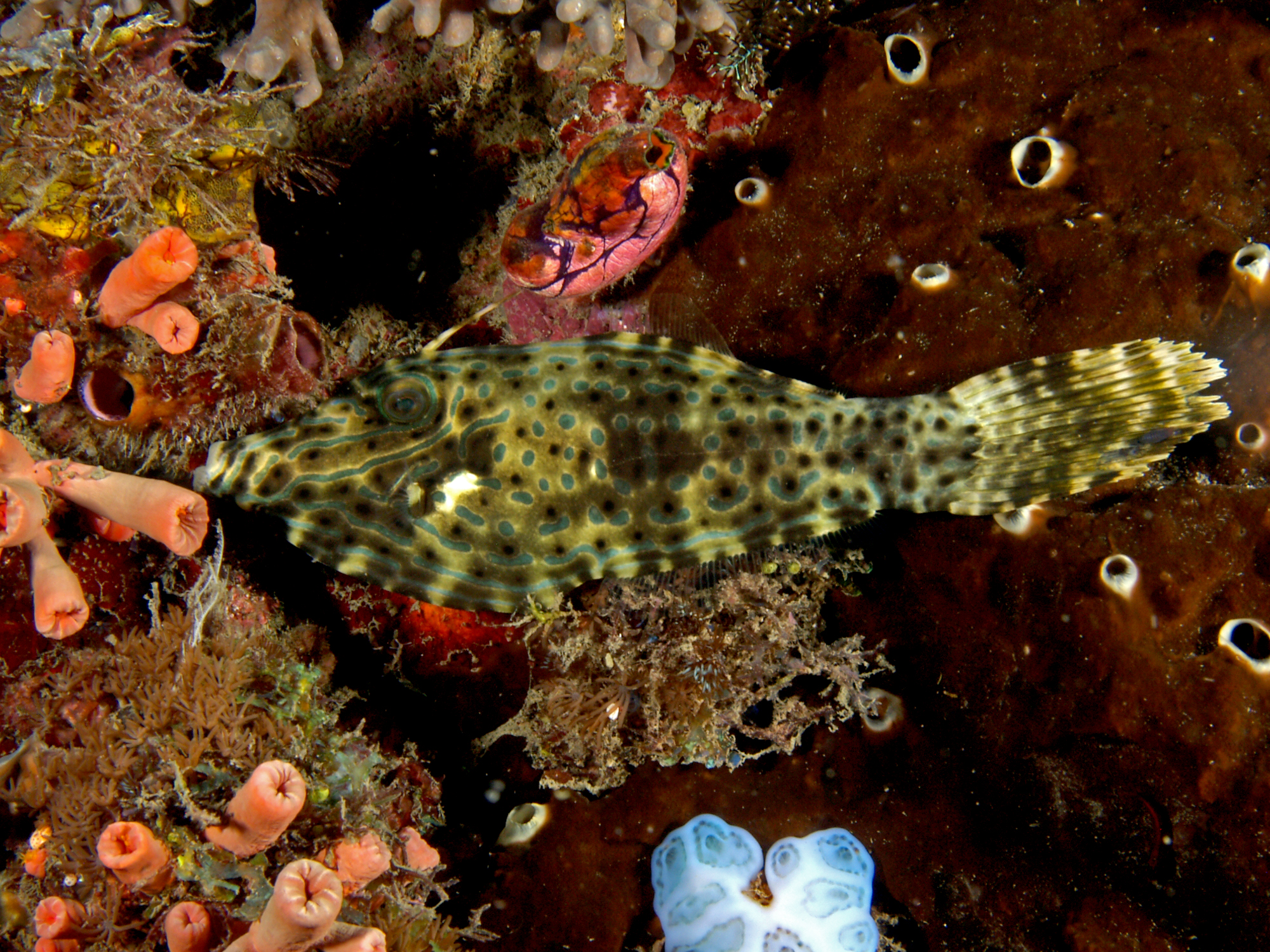 Aluterus scriptus (Scribbled leatherjacket)